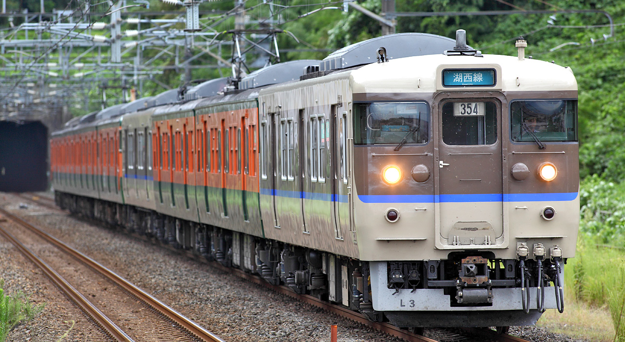 JNR 113 series EMU belongs to the JR West, at Ogoto Onsen Sta.